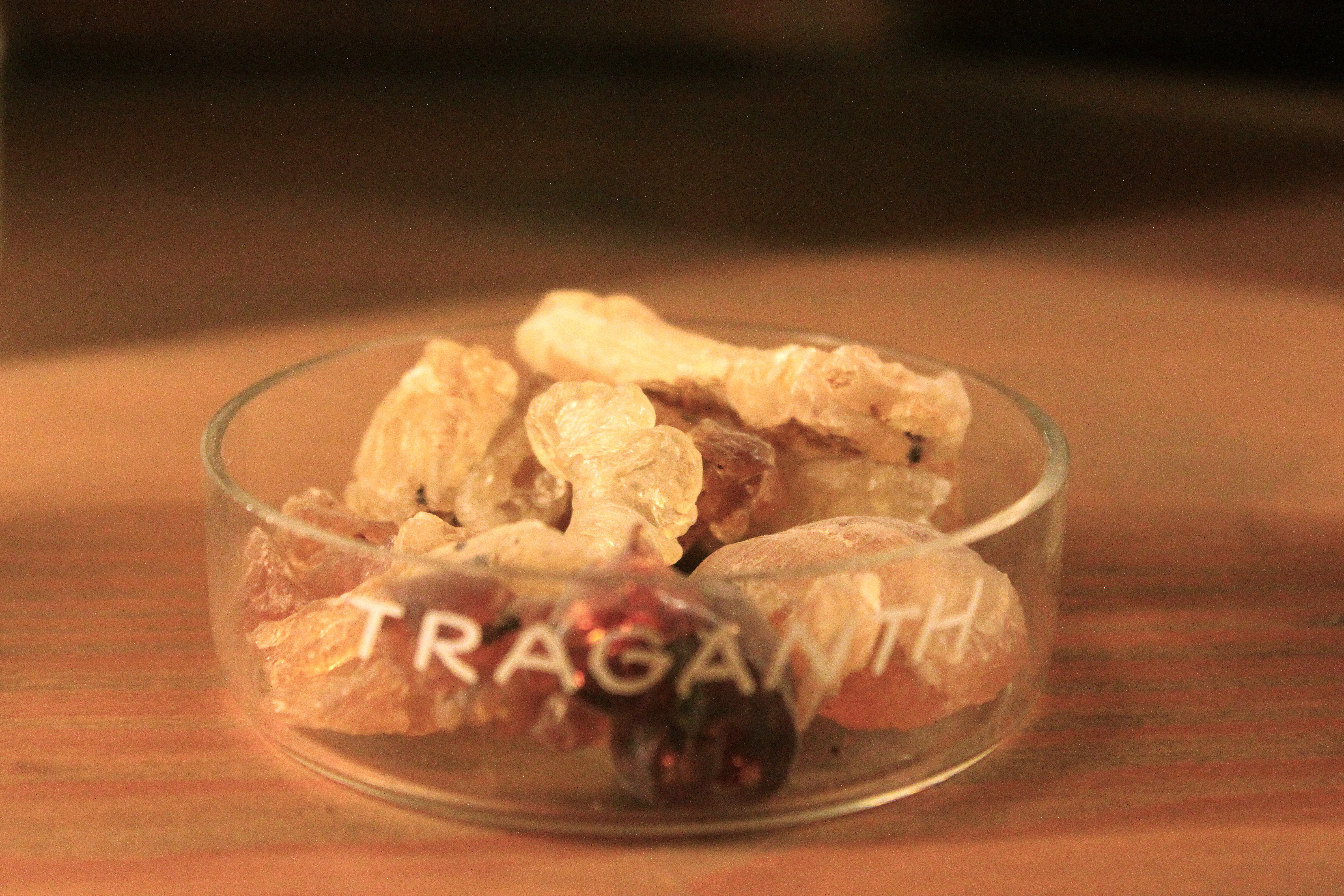 A dish of Tragacanth. Exhibition piece of the German Pharmacy Museum in Heidelberg, Germany.